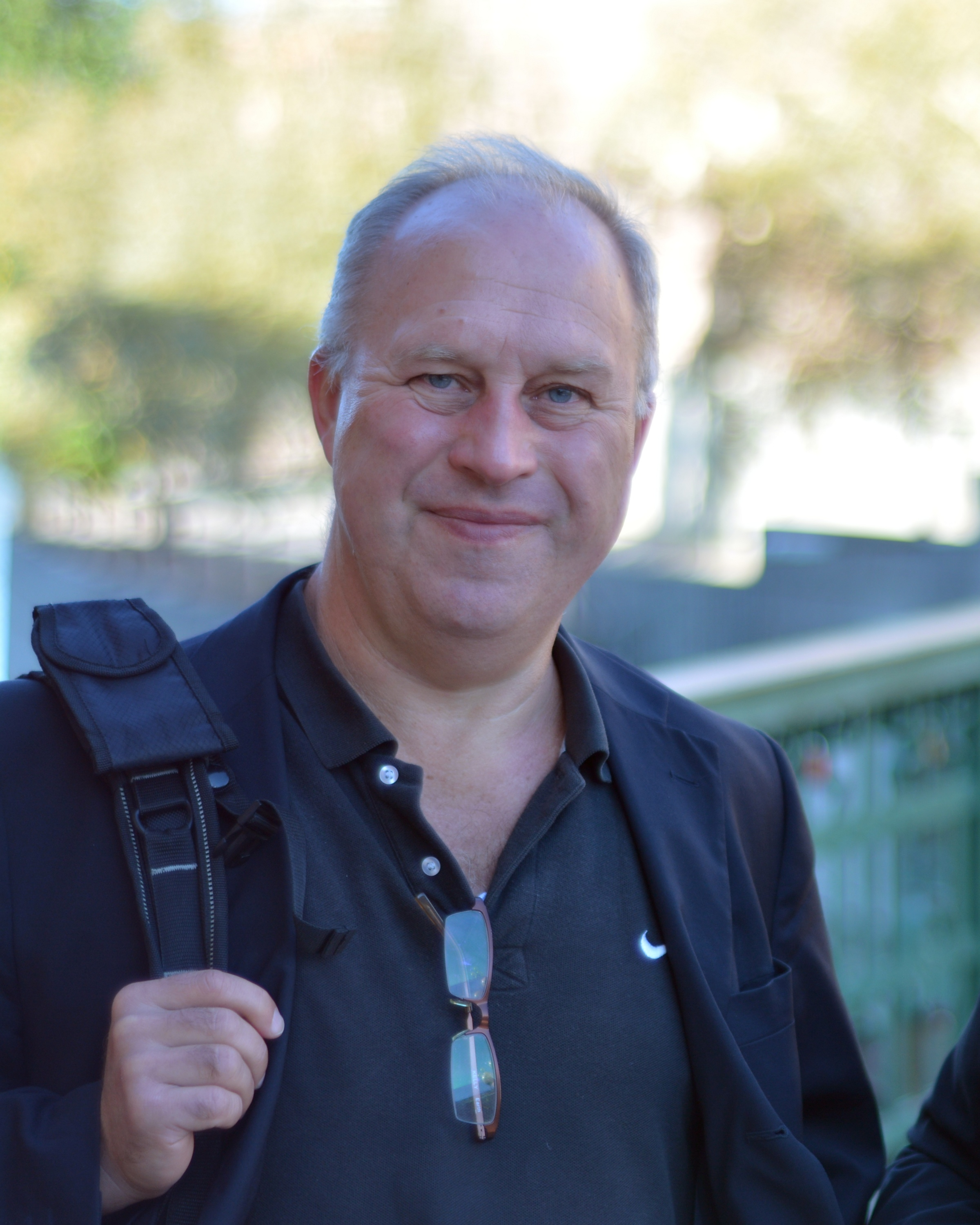 Per Bill